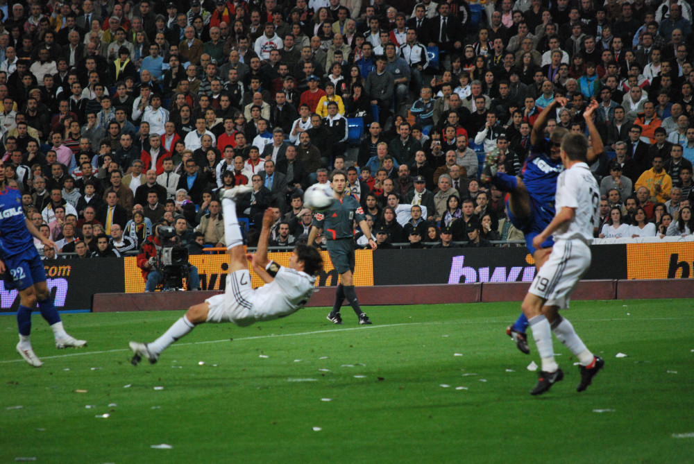 Real Madrid CF-Getafe CF, 22 April 2009. Raúl bicycle kick